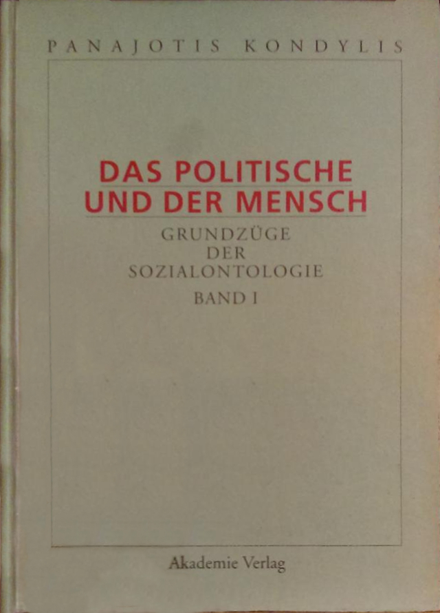 Book cover of Panajotis Kondylis: Das politische und der Mensch.